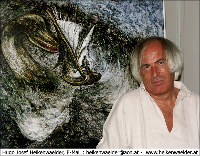 Heikenwaelder Hugo (painter) with Seasnake (Loch Ness Monster / Oilpainting)